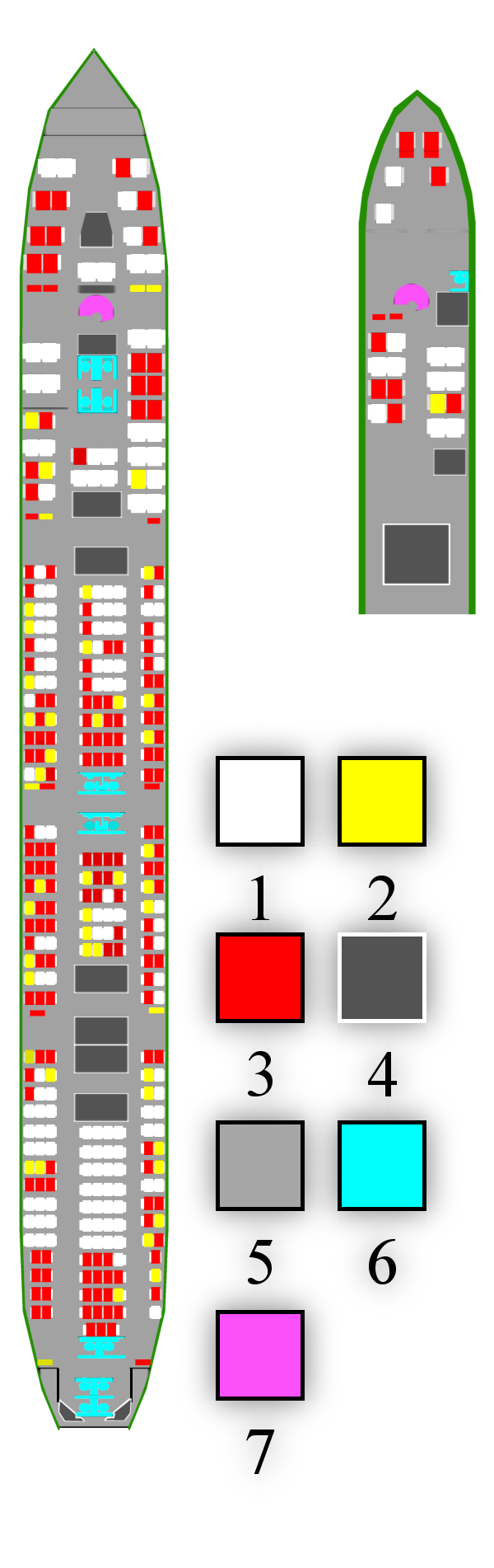 China Airlines Flight 611 recovered victims.